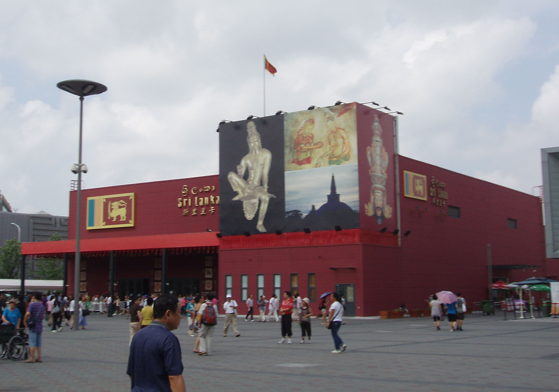 Srilanka Pavilion of Expo 2010,Shanghai.